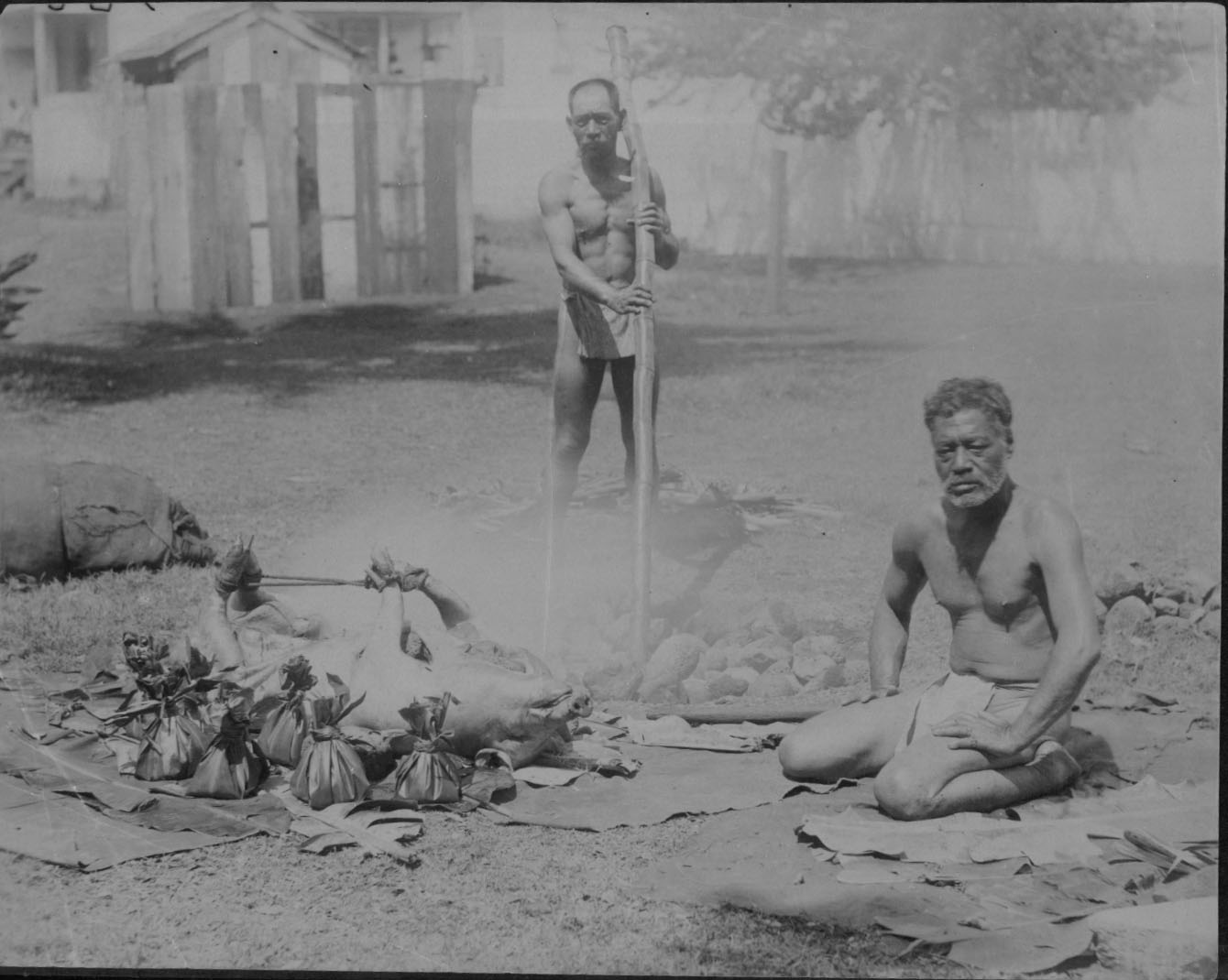 Making Ready the Feast from Hawaiian Folk Tales.